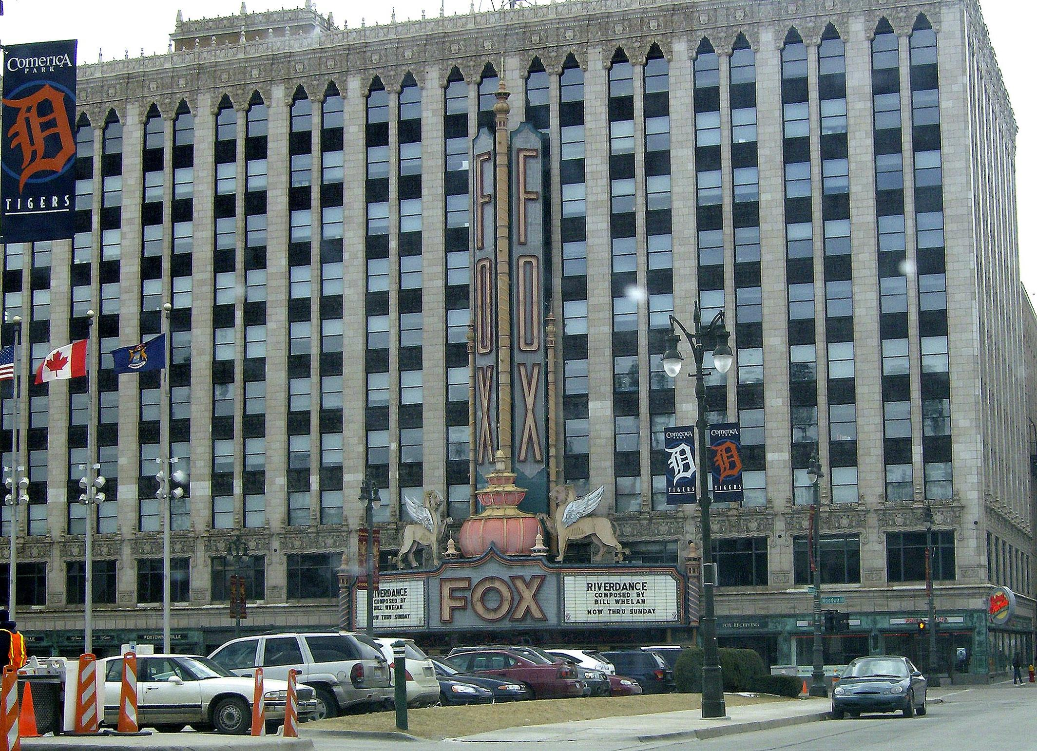 The Fox Theatre facade — Detroit, Michigan. It houses the headquarters of Little Caesars